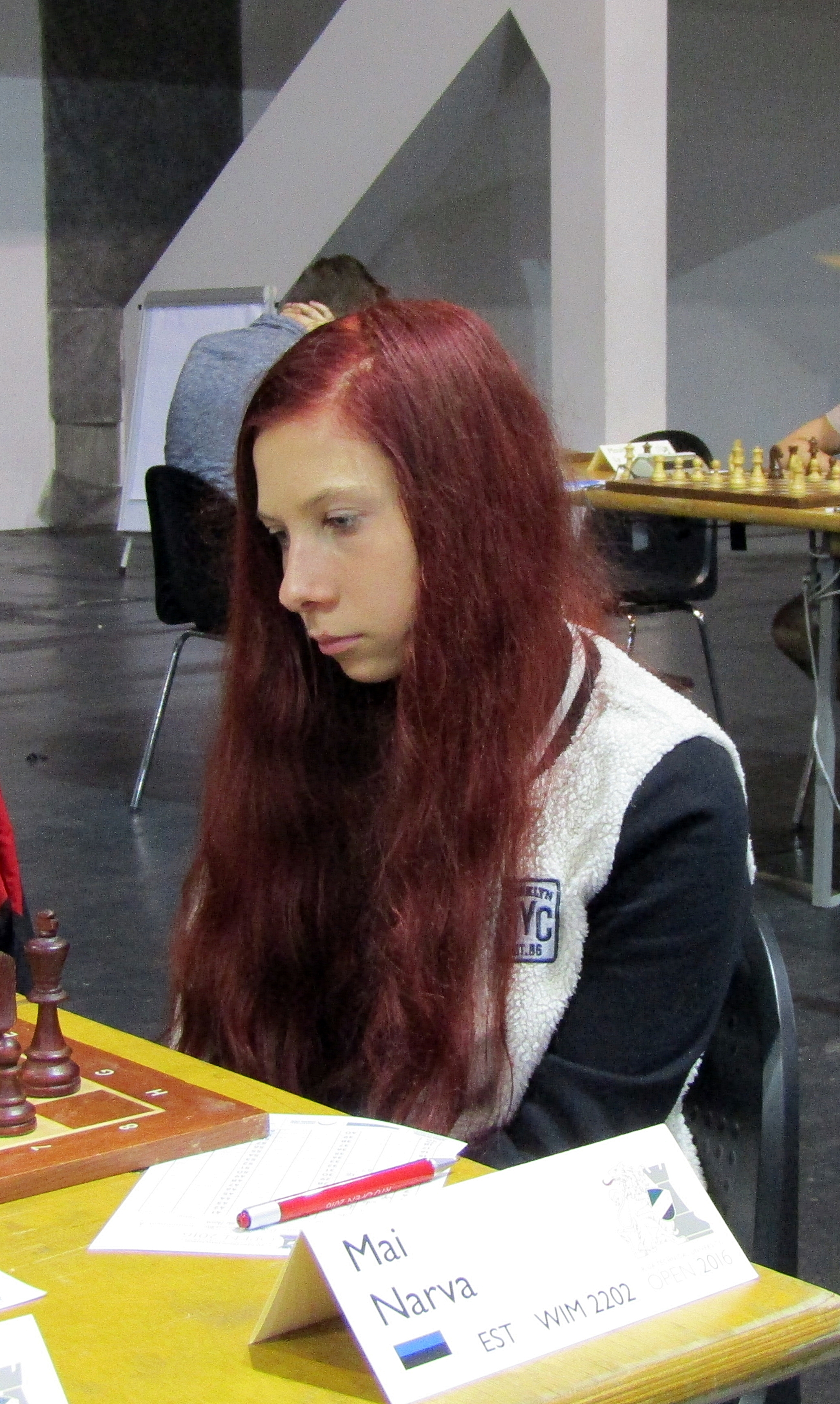 Mai Narva, chess player from Estonia